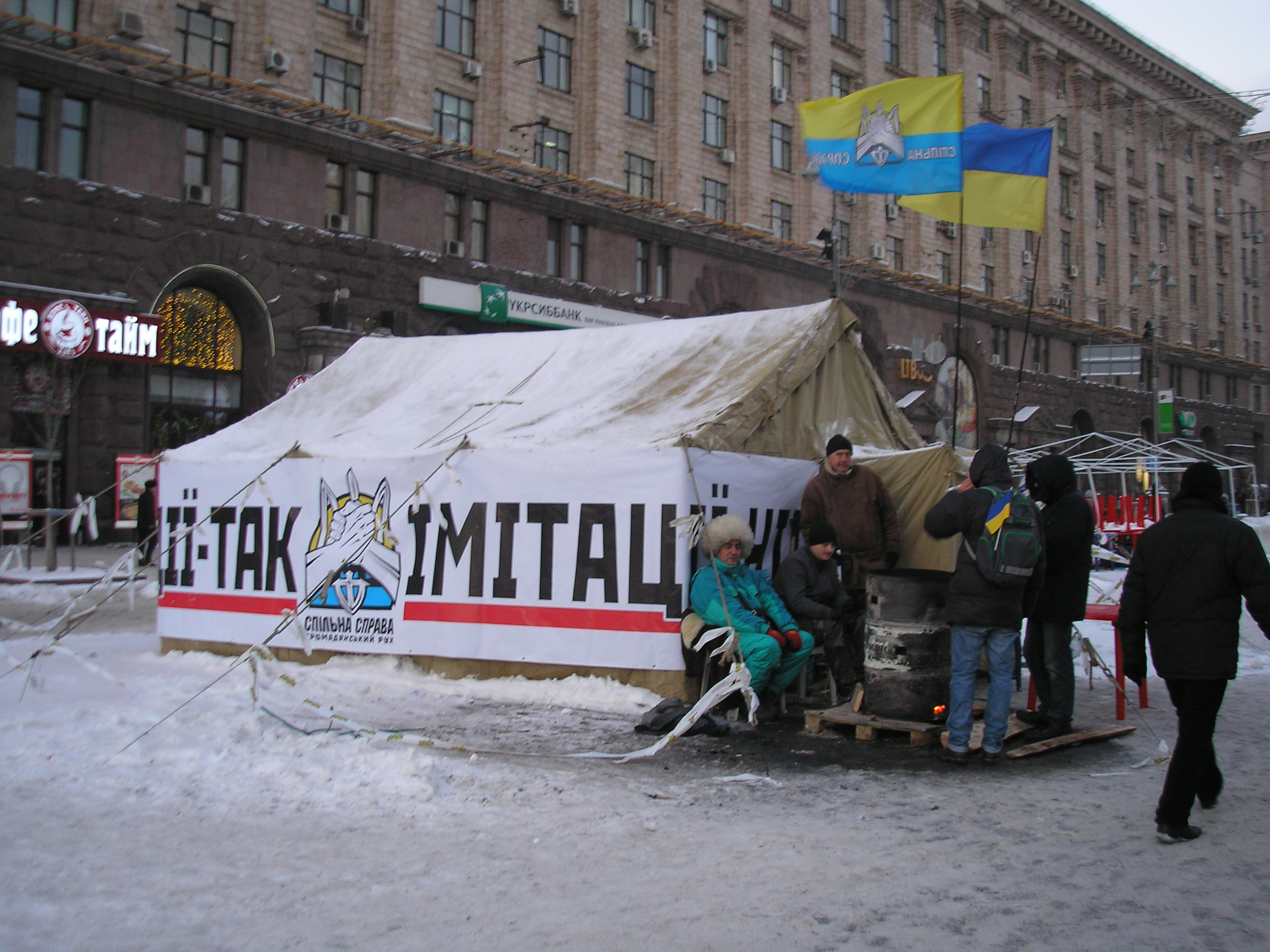 Euromaidan in early evening, «Spilna Sprava» tent, December 9, 2013.